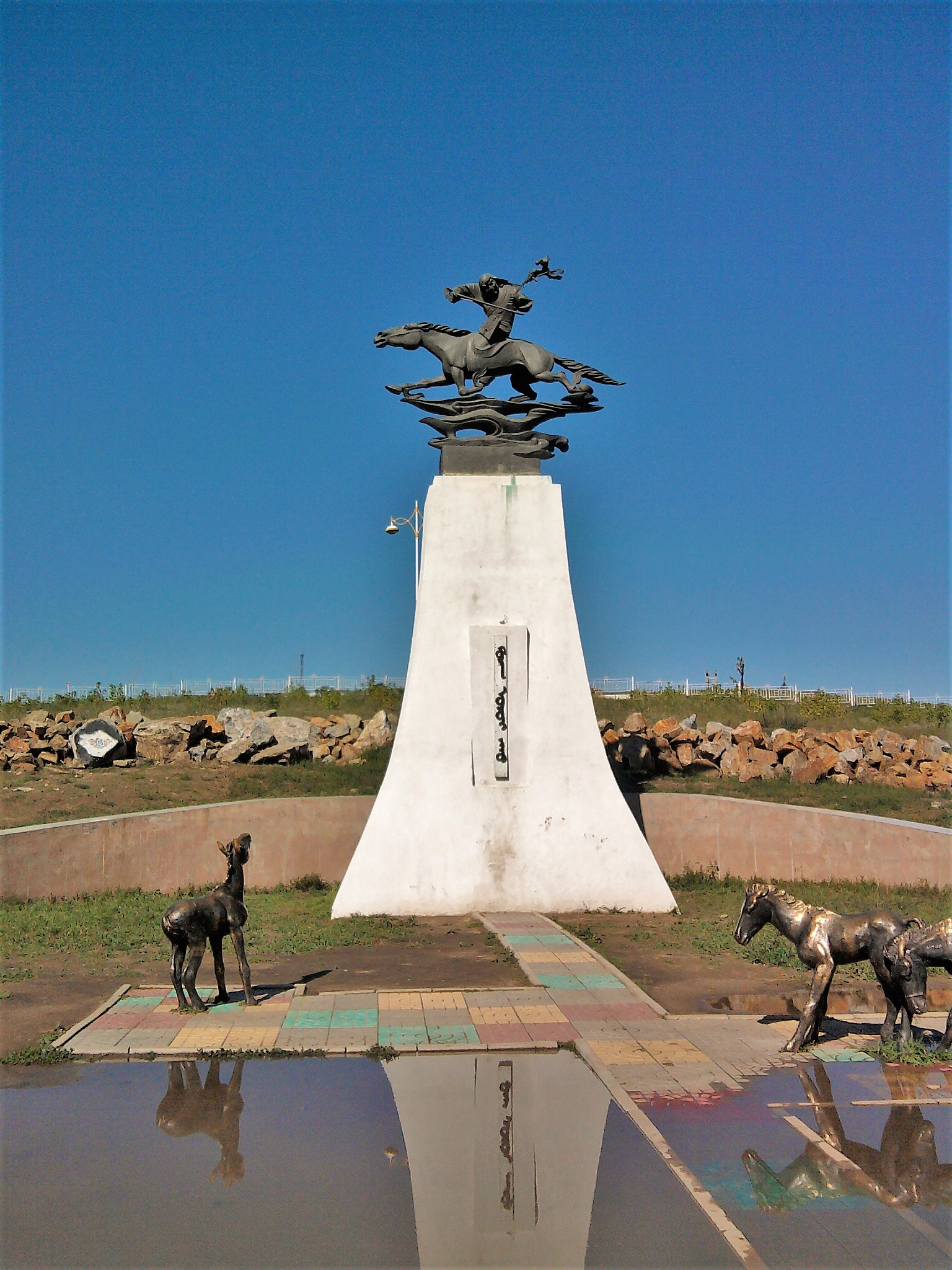 Monument for Morinkhuur instrument (Морин хуур цогцолбор) in Darkhan city